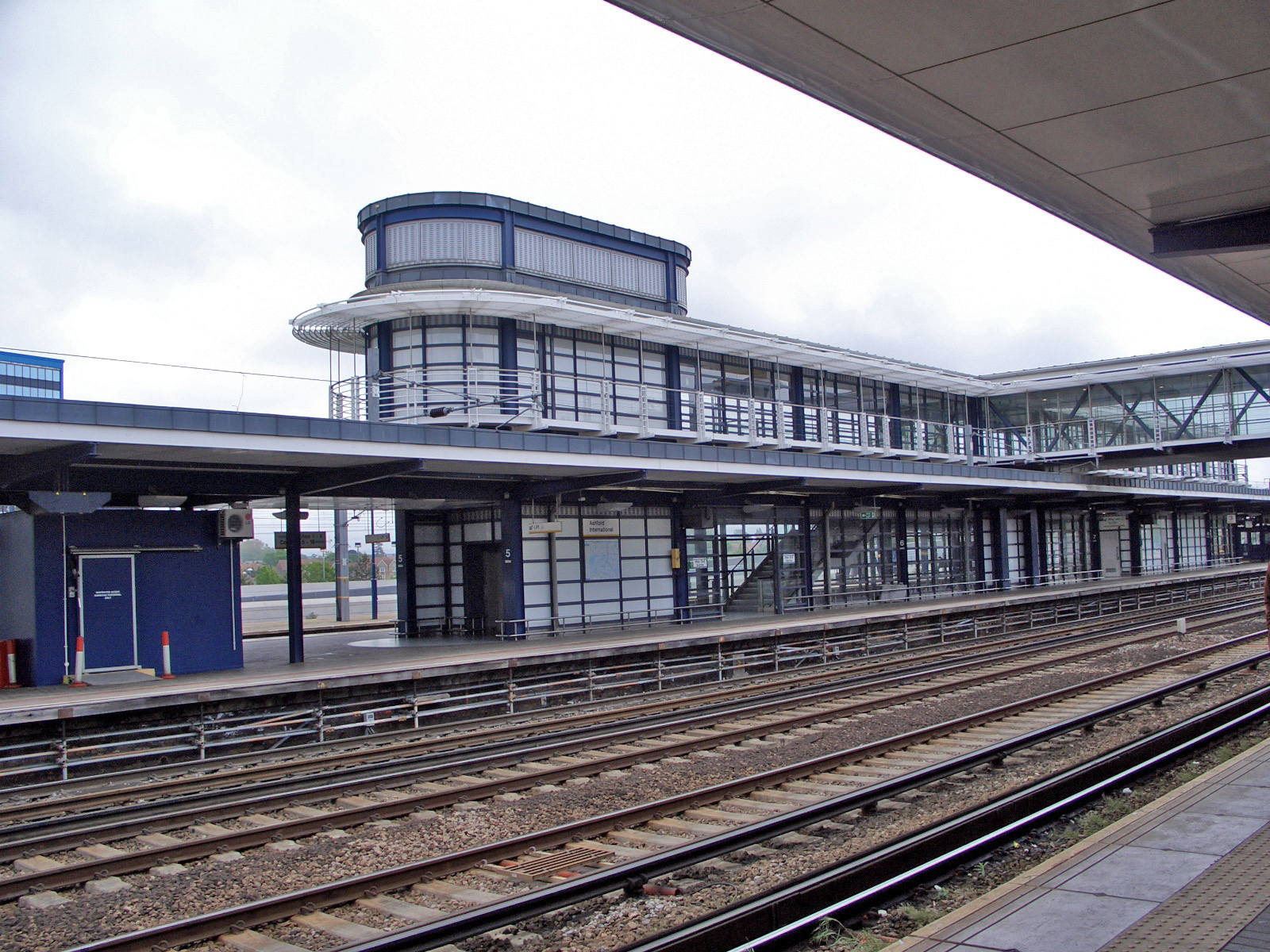 (none)Ashford Station